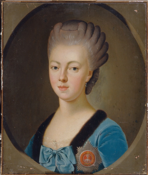 Portrait of Grand Duchess Natalia Alexeyevna of Russia (1755-1776), Princess Wilhelmina Louisa of Hesse-Darmstadt // Regional Art Museum, Lugansk